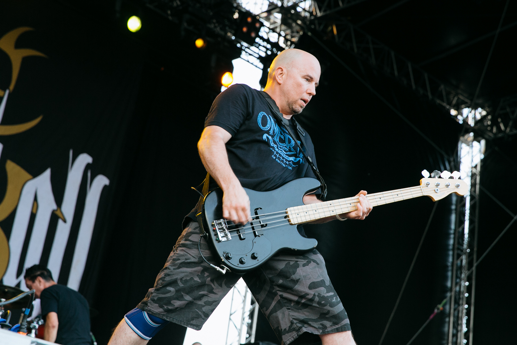 Sick Of It All at Vainstream 2015